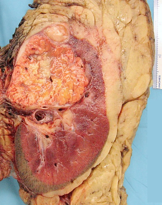 Gross appearance of the cut surface of a nephrectomy specimen containing a large renal cell carcinoma (the large yellowish tumour in the upper half of the kidney).